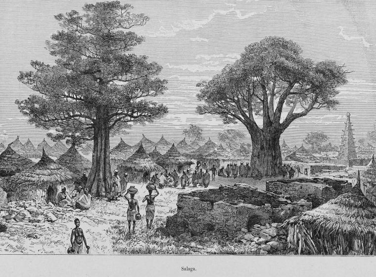 View of Salaga village with traditional architecture and large African Baobab trees (Adansonia digitata), in colonial French West Africa, 1892. In the present day sub-Saharan Sahel—tropical Savanna Northern Region of Ghana.